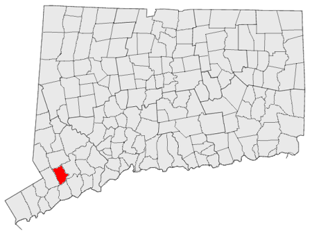 I made this.